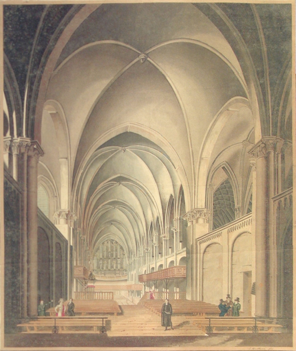 Central nave of Bremen Cathedral in the 1820s, with the large organ built by Arp Schnitger in 1698